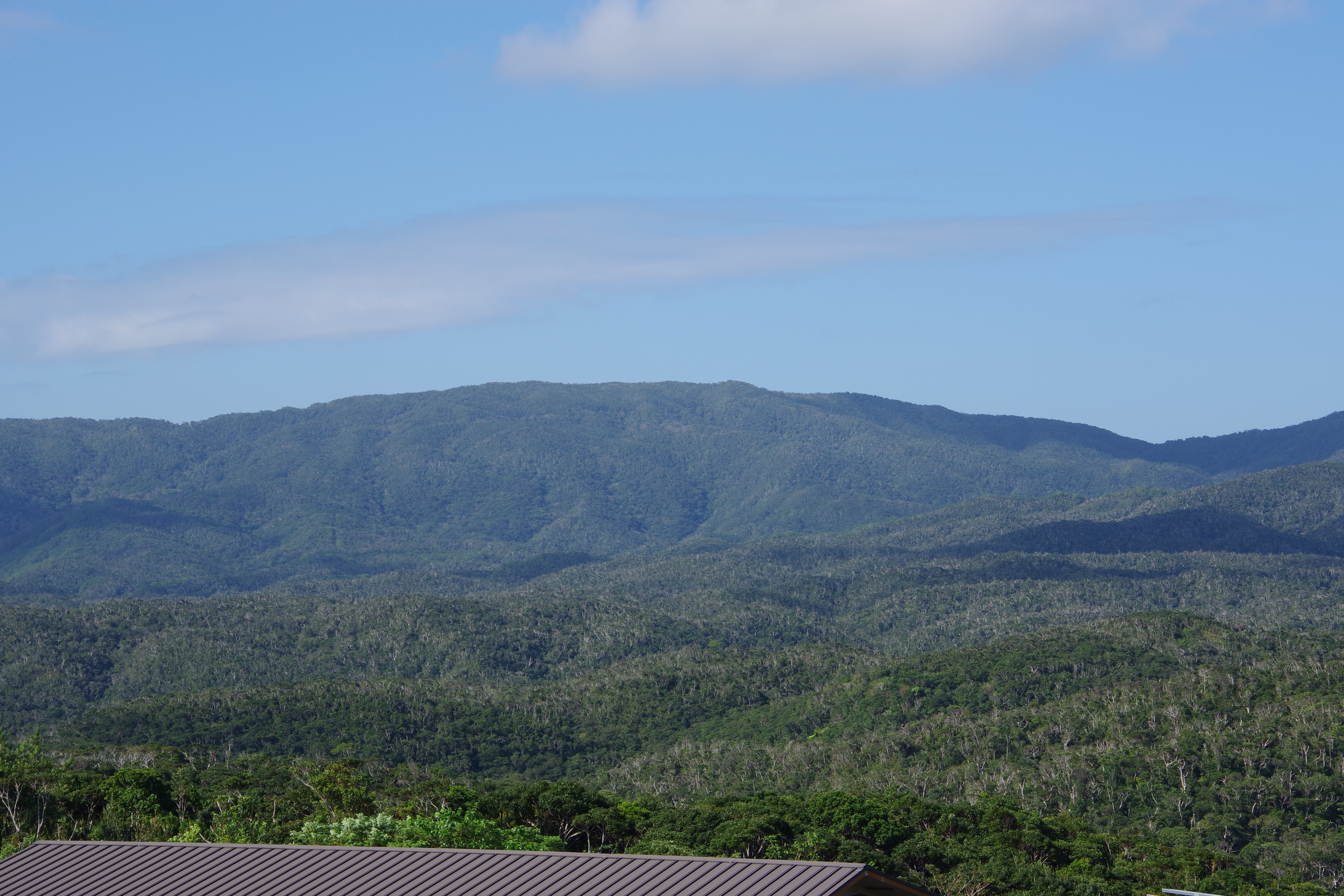 Mount Yonaha at east, seen from the Yambaru Discovery Forest, Okinawa Prefecture, Japan